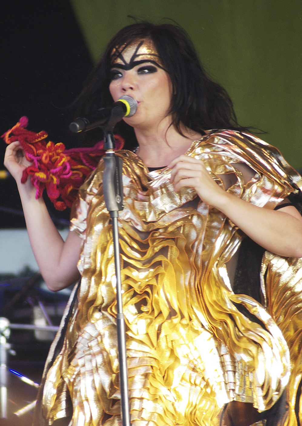 Björk at Big Day Out, Melbourne Flemington Racecourse, Victoria, Australia.